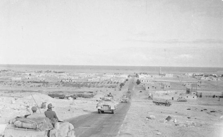 8th Army re-enters Mersa Matruh, Novemebr, 1942